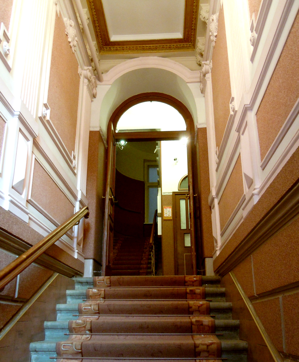 Riga, Antonijas street 10.